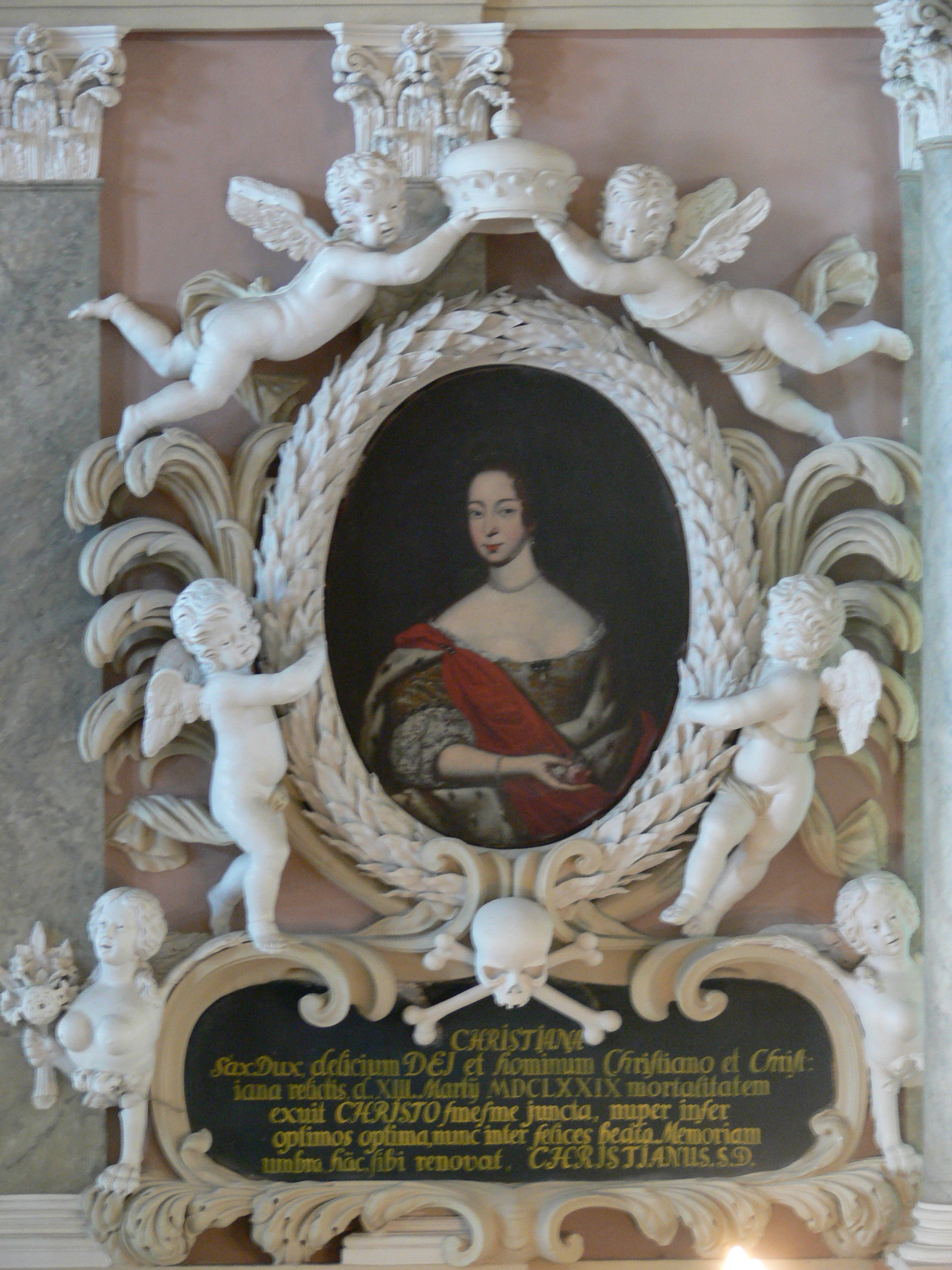 Eisenberg, Thuringia. Interior of the Schlosskirche (palace church).